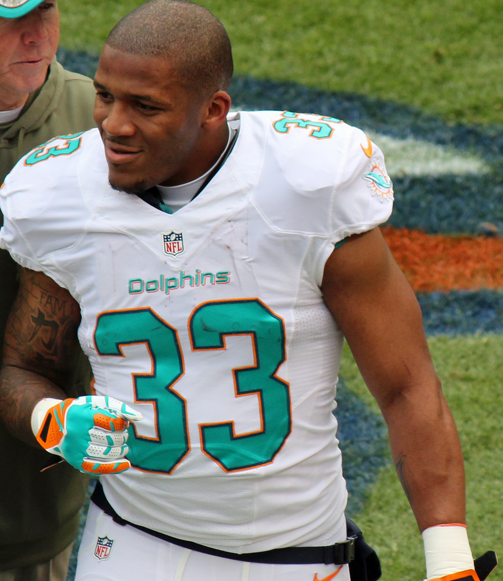 LaMichael James, a player on the National Football League.